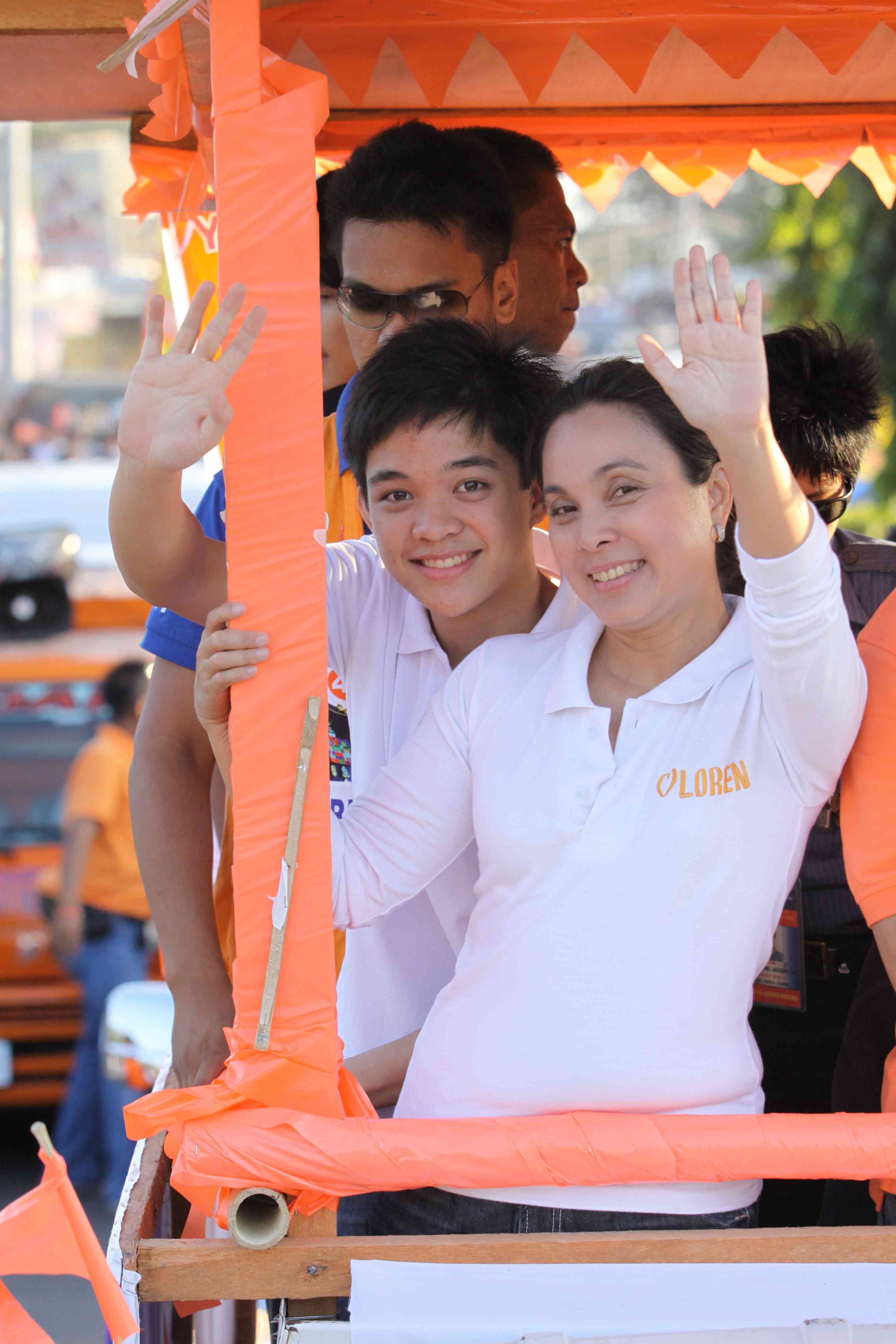 Loren Legarda and her second son Leandro Leviste at a campaign rally for the election of Loren Legarda as Vice-president as part of the Nacionalista Party at Naga City, Camarines Sur, on Sunday, 28 March 2010.